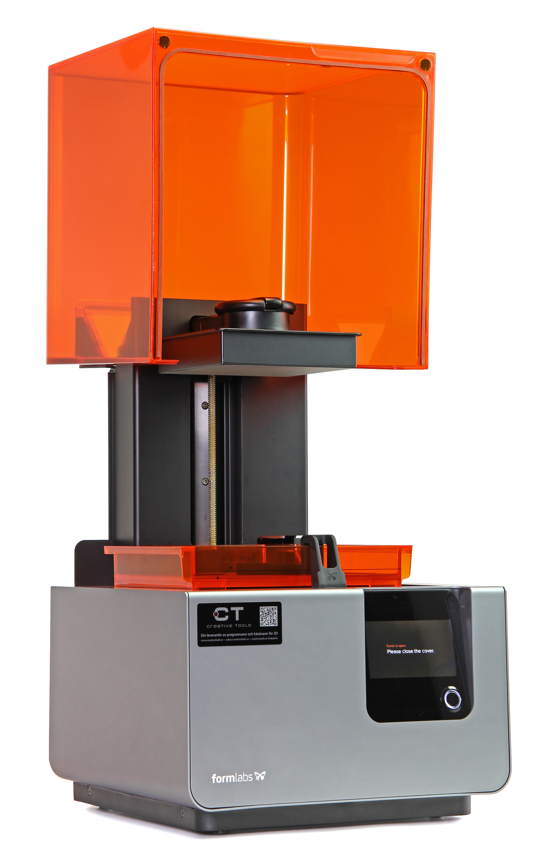 The Formlabs Form 2 stereolithography 3D printer for super fine professional 3D prints right on your desktop. Formlabs Form 2